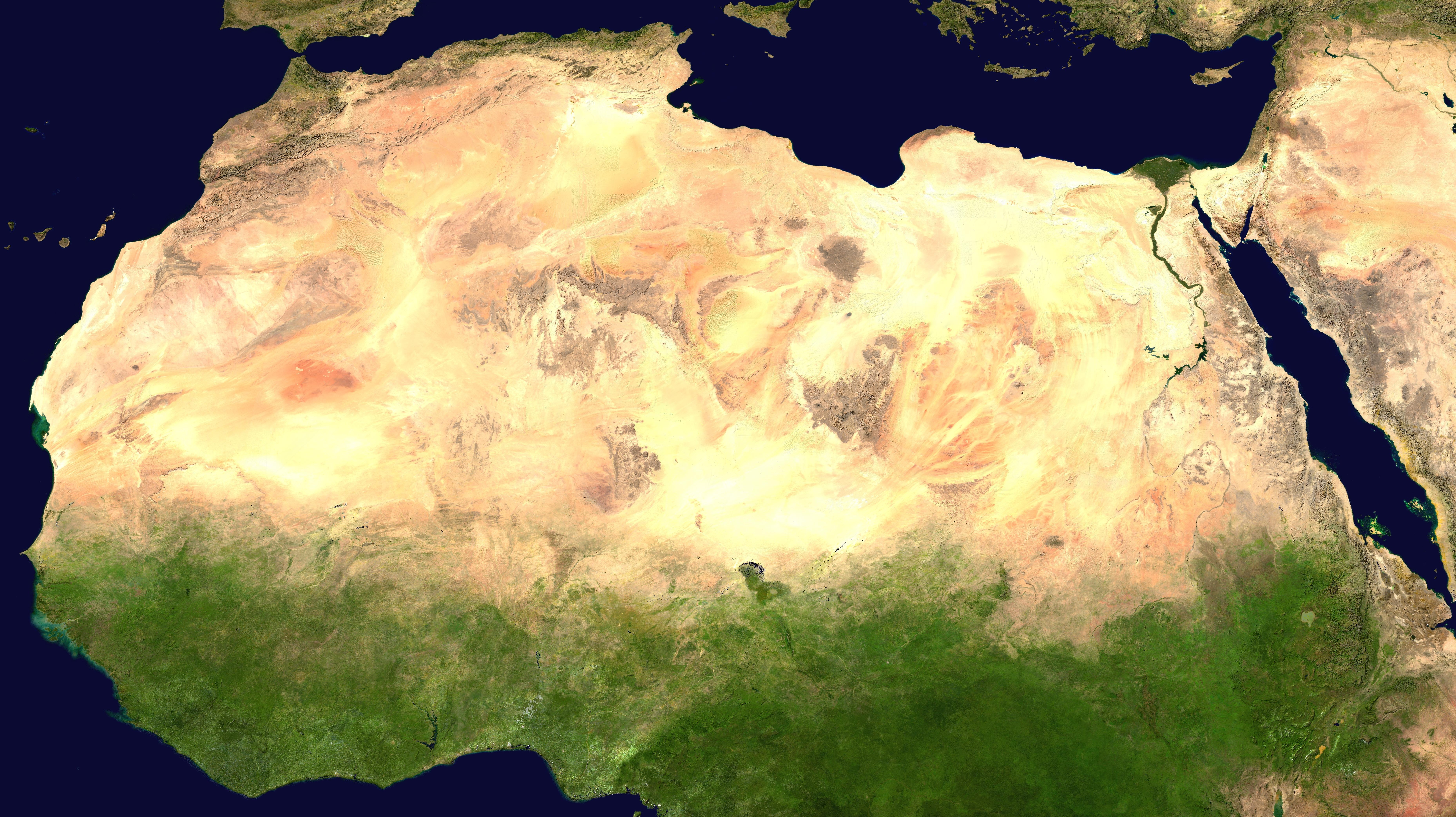 Sahara desert from space.